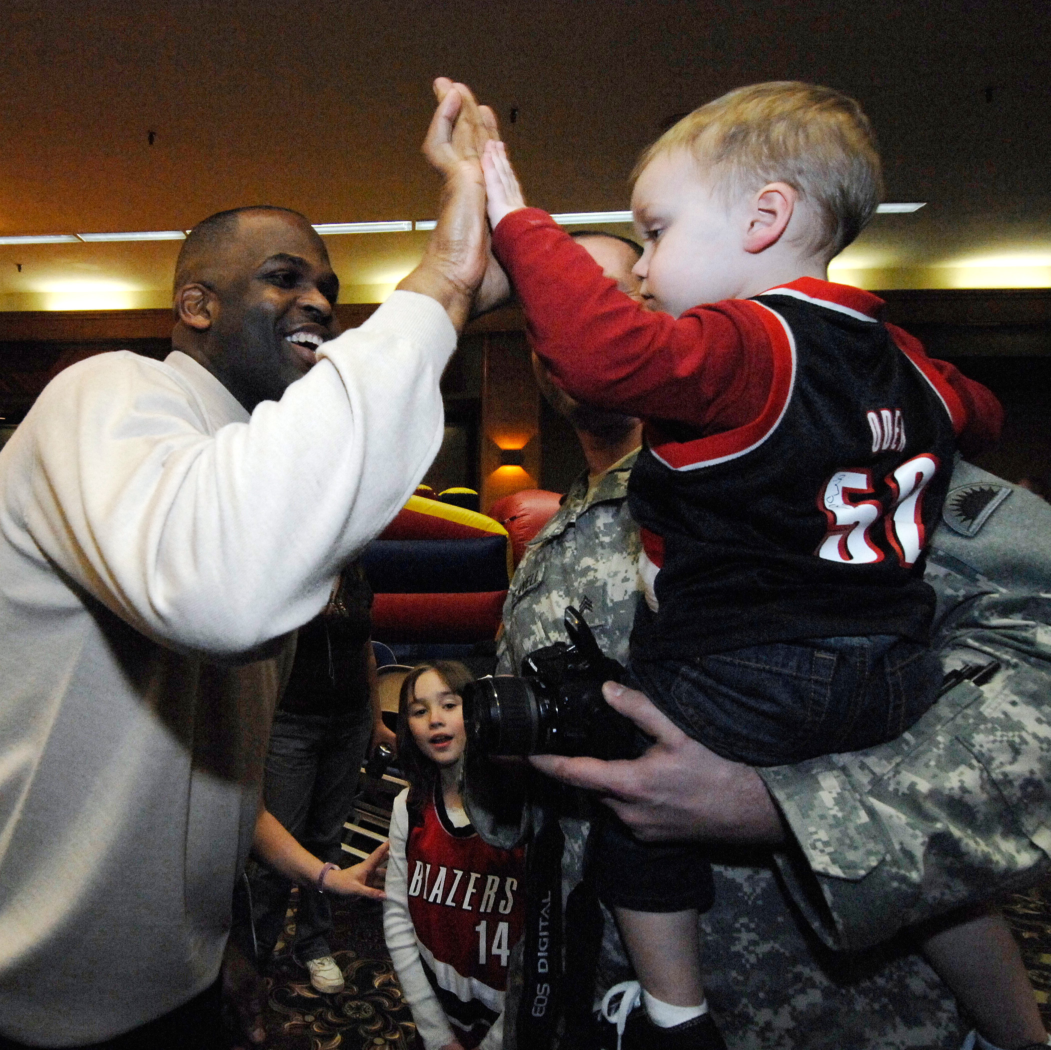 Portland Trail Blazers head coach, Nate McMillan, gives a high-five to Jackson Creswell at the "Make It Better Holiday Carnival" at the Memorial Coliseum, Feb. 9. Jackson, and father, Sgt. Ryan Creswell, of Bravo Co., 41 Special Troops Battalion, and his wife Christina, and daughter Emma, spoke to McMillan before handing their camera to a bystander to take a picture of the group. Hosted by the Portland Trail Blazers NBA basketball franchise, the event honored military members, giving them a chance to meet with Trail Blazers team members. (U.S. Air Force photo by Tech. Sgt. Nick Choy, Oregon Military Department Public Affairs Office)